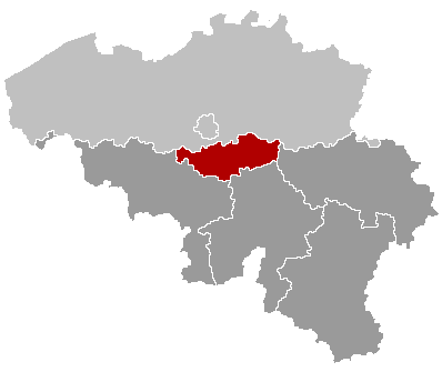 map made by User:Morwen put under the GNU Free Documentation License.